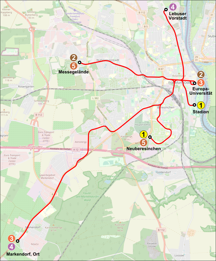 Tramway system of Frankfurt (Oder)